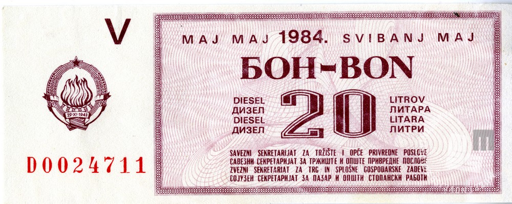 Bonus for fuel purchase in SFR Yugoslavia